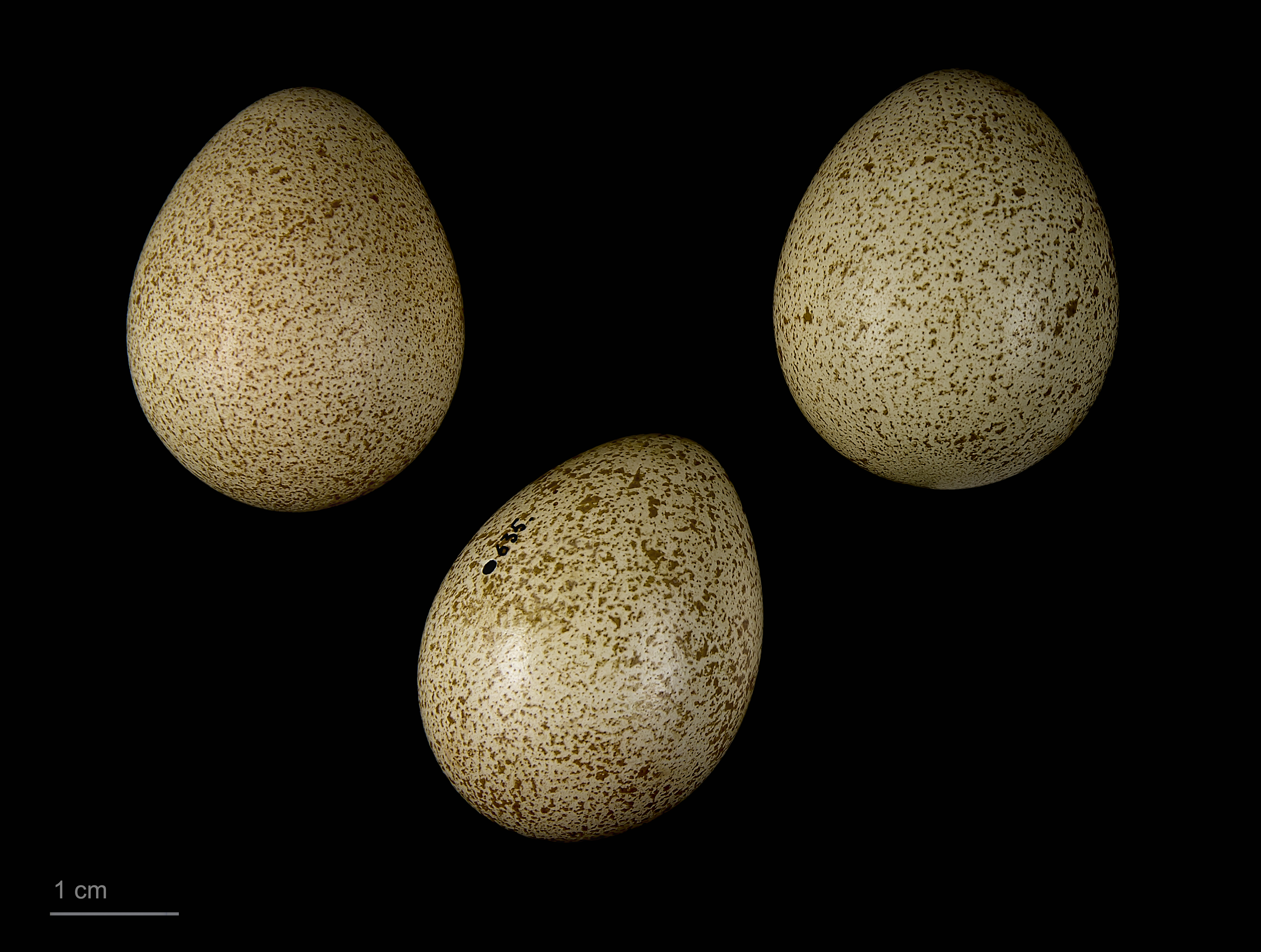 Egg of Alectoris rufa Collection of Jacques Perrin de Brichambaut.